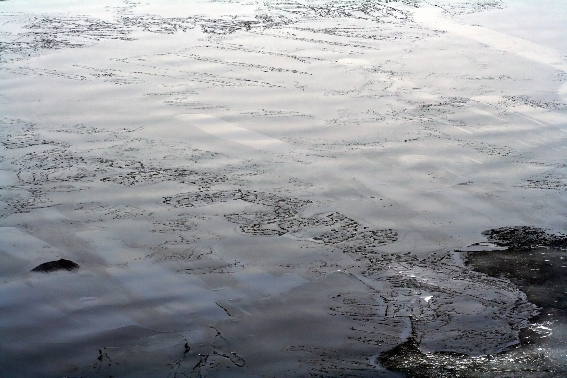 Nilas Sea Ice sea ice Baffin Bay Arctic. In calm water, the first sea ice to form on the surface is a skim of separate crystals which initially are in the form of tiny discs, floating flat on the surface and of diameter less than 2-3 mm. Each disc has its c-axis vertical and grows outwards laterally. At a certain point such a disc shape becomes unstable, and the growing isolated crystals take on a hexagonal, stellar form, with long fragile arms stretching out over the surface. These crystals also have their c-axis vertical. The dendritic arms are very fragile, and soon break off, leaving a mixture of discs and arm fragments. With any kind of turbulence in the water, these fragments break up further into random-shaped small crystals which form a suspension of increasing density in the surface water, an ice type called frazil or grease ice. In quiet conditions the frazil crystals soon freeze together to form a continuous thin sheet of young ice; in its early stages, when it is still transparent, it is called nilas. When only a few centimetres thick this is transparent (dark nilas) but as the ice grows thicker the nilas takes on a grey and finally a white appearance. The image was taken from an icebreaker.